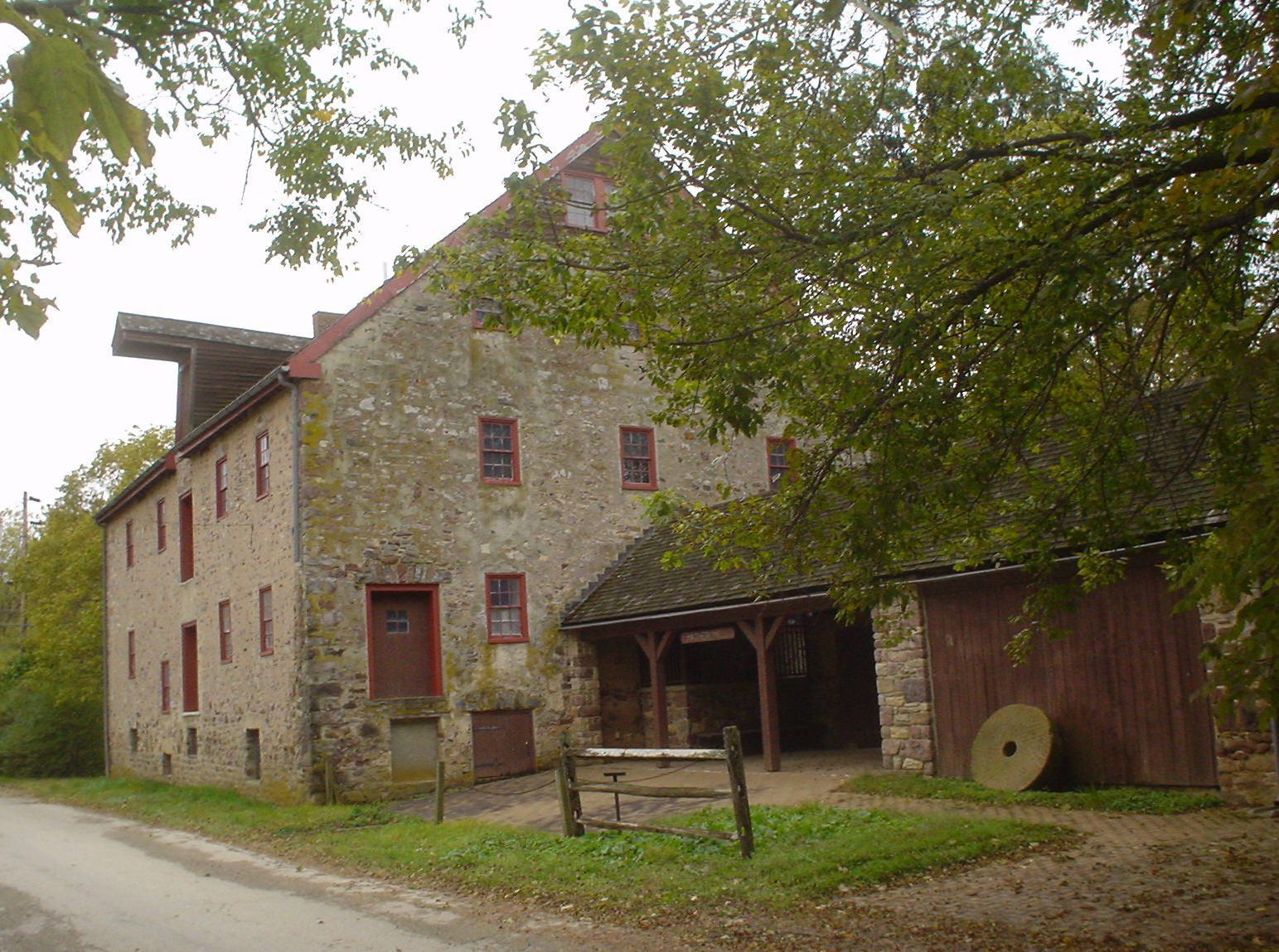 Mather's Mill (aka Farmar's Mill) Ft. Washington, PA. This is my own work, and I donate it to the public domain